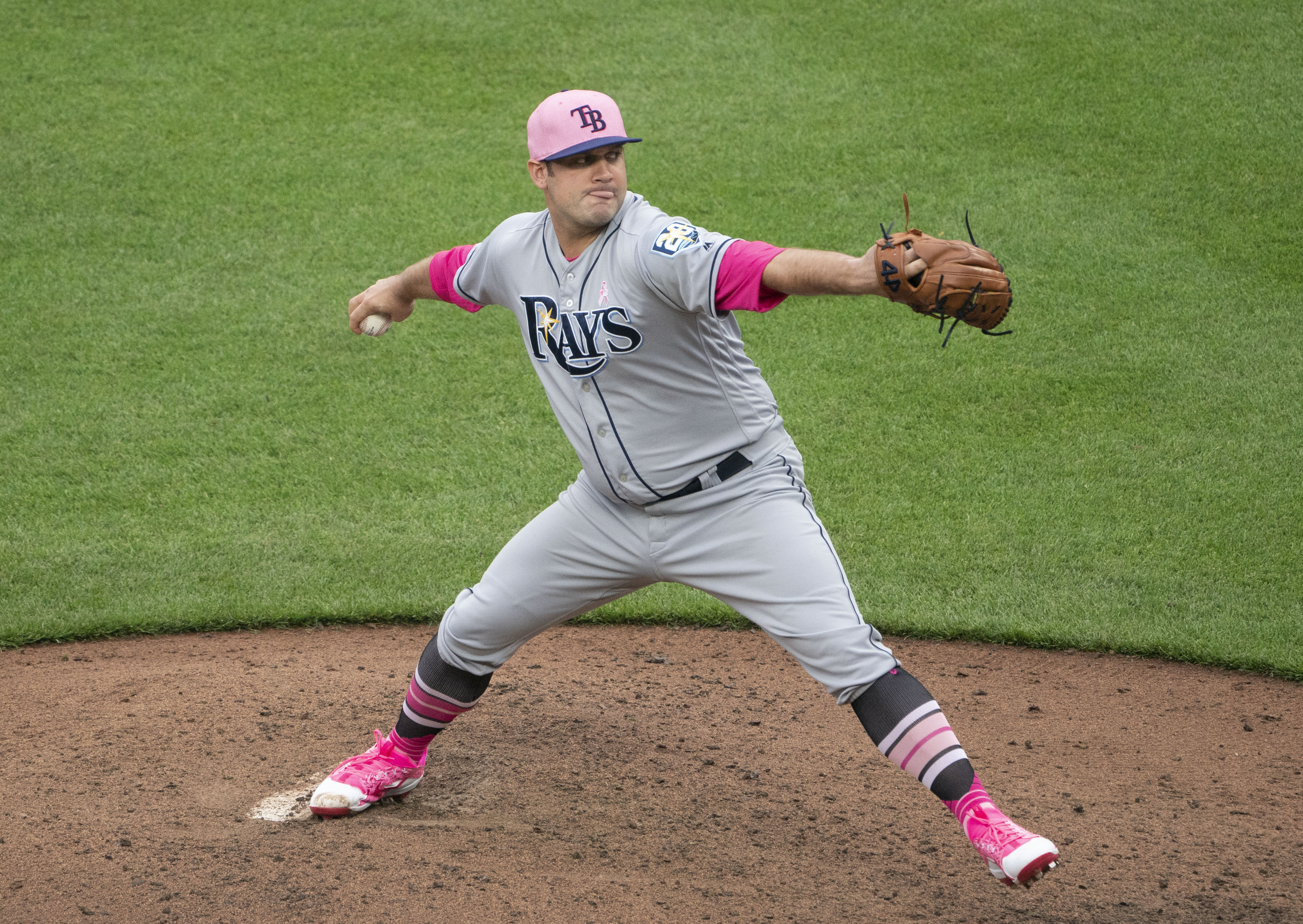 Andrew Kittredge of the Tampa Bay Rays delivers a pitch against the Baltimore Orioles in 2018 at Camden Yards in Baltimore.